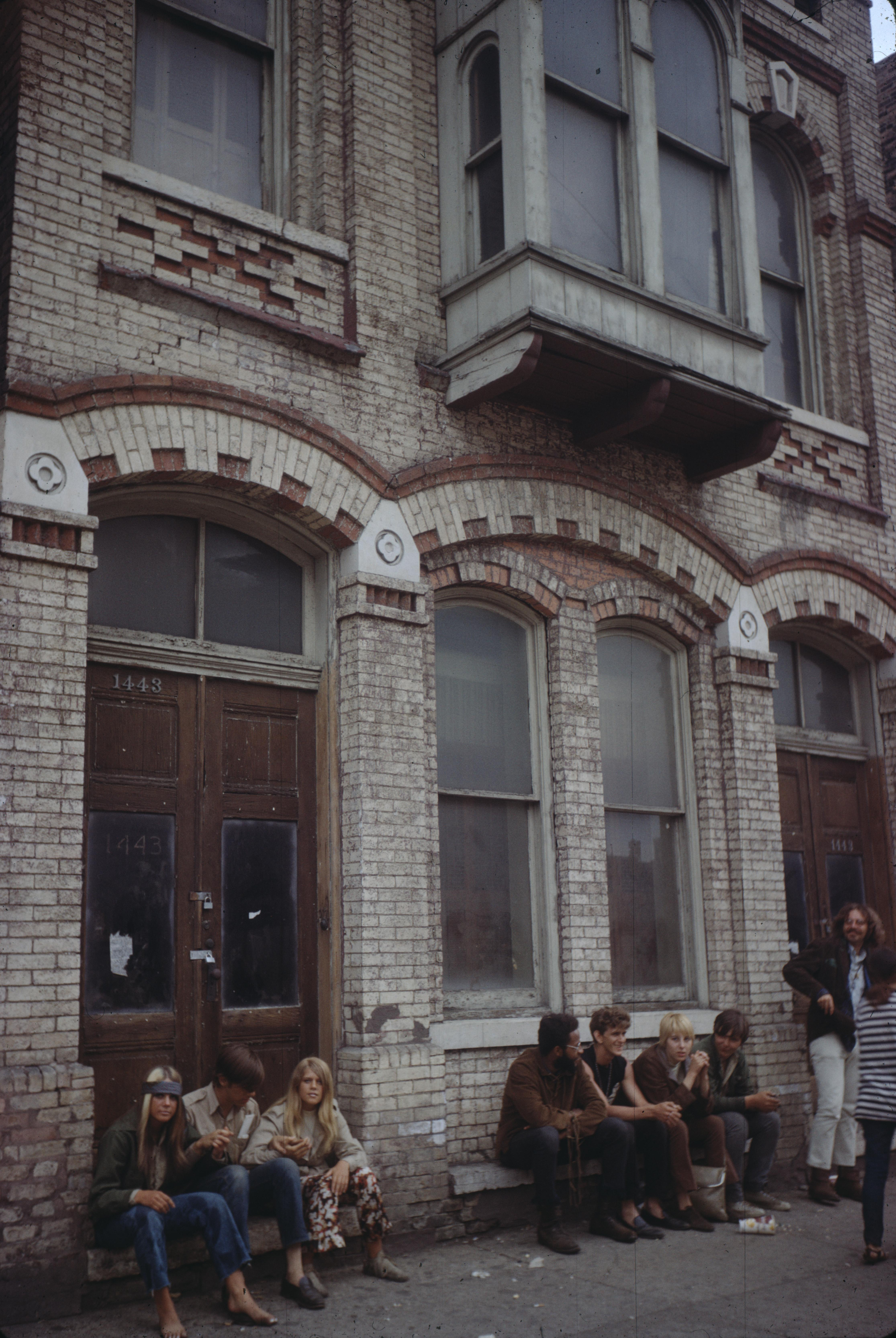 CyberViewX v5.16.55 Model Code=58 F/W Version=1.21 Photography by Victor Albert Grigas (1919-2017)